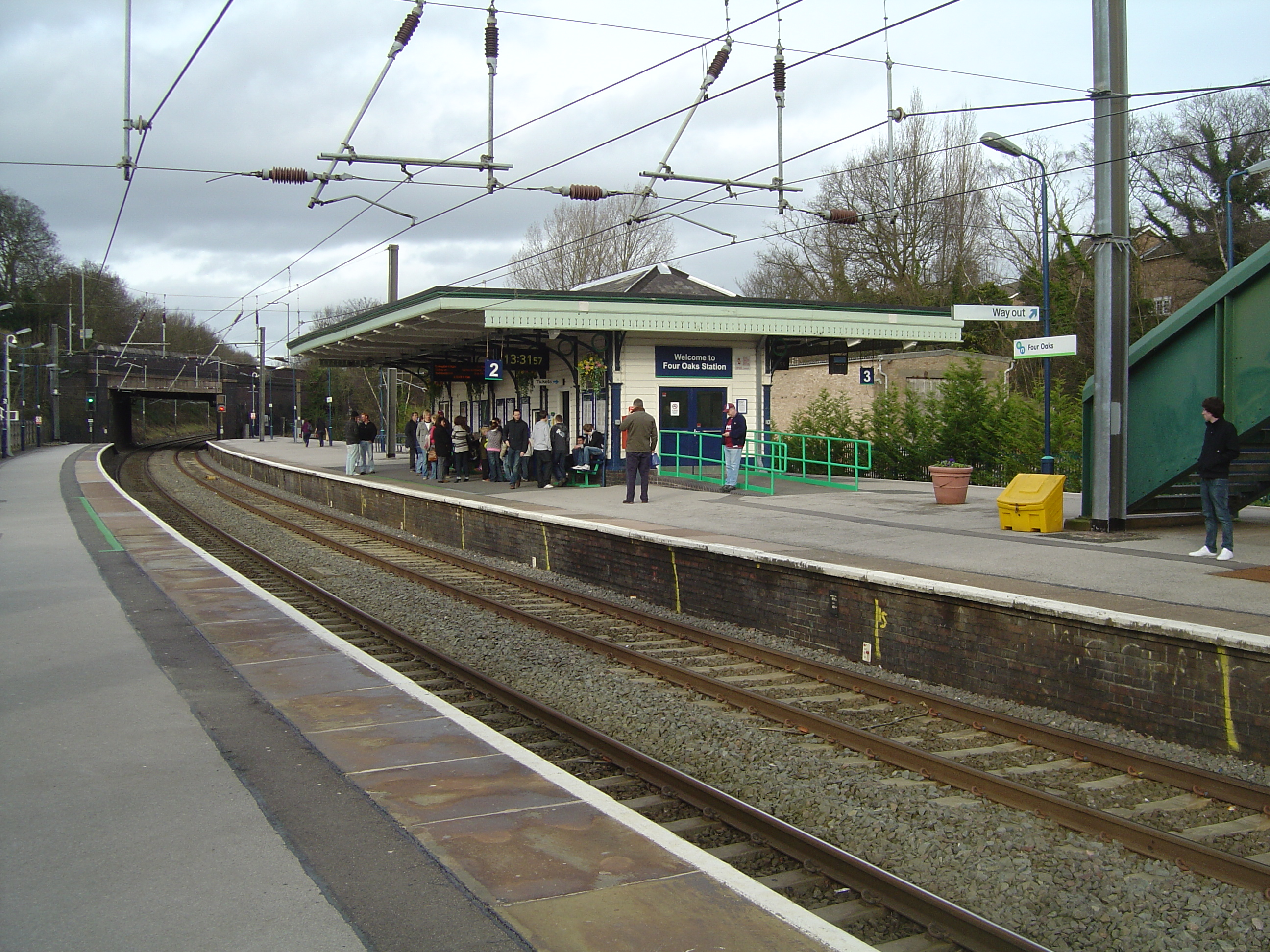 Four Oaks railway station